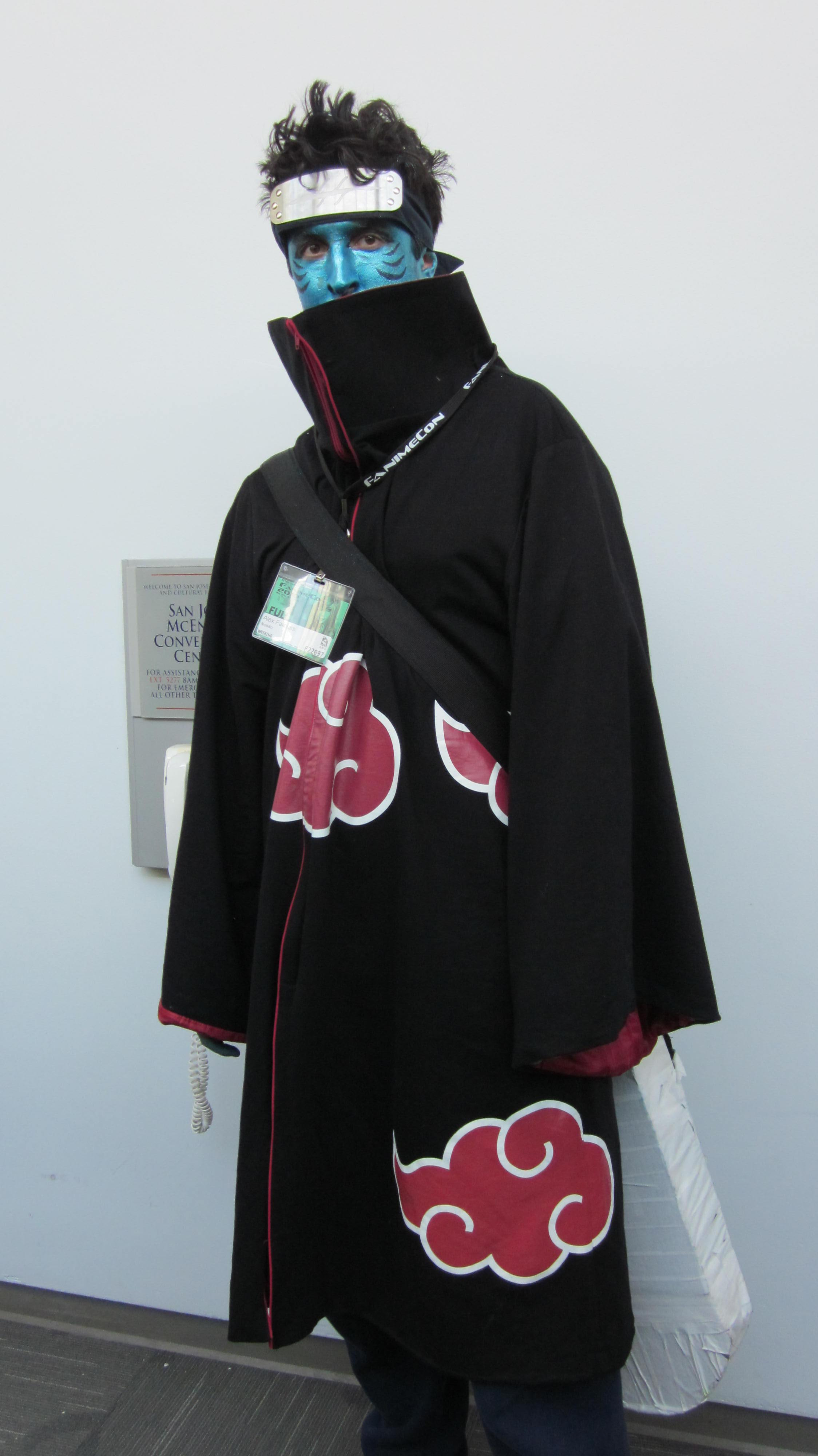 A cosplayer portraying Kisame Hoshigaki from Naruto at FanimeCon 2010 in San Jose, California.